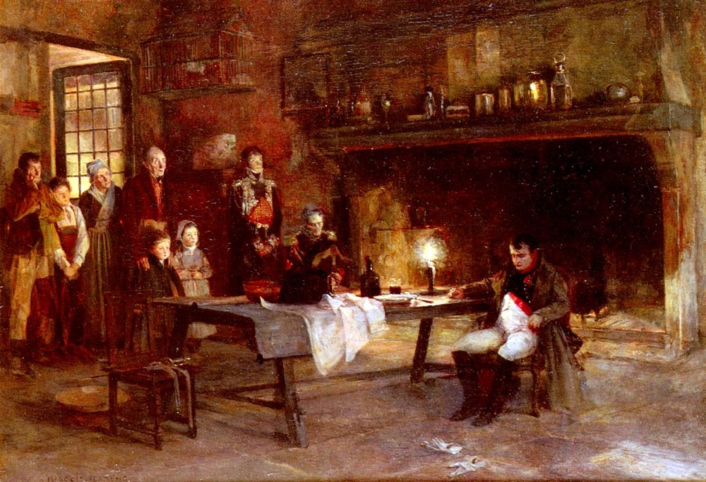 Napoleon After The Battle Of Waterloo